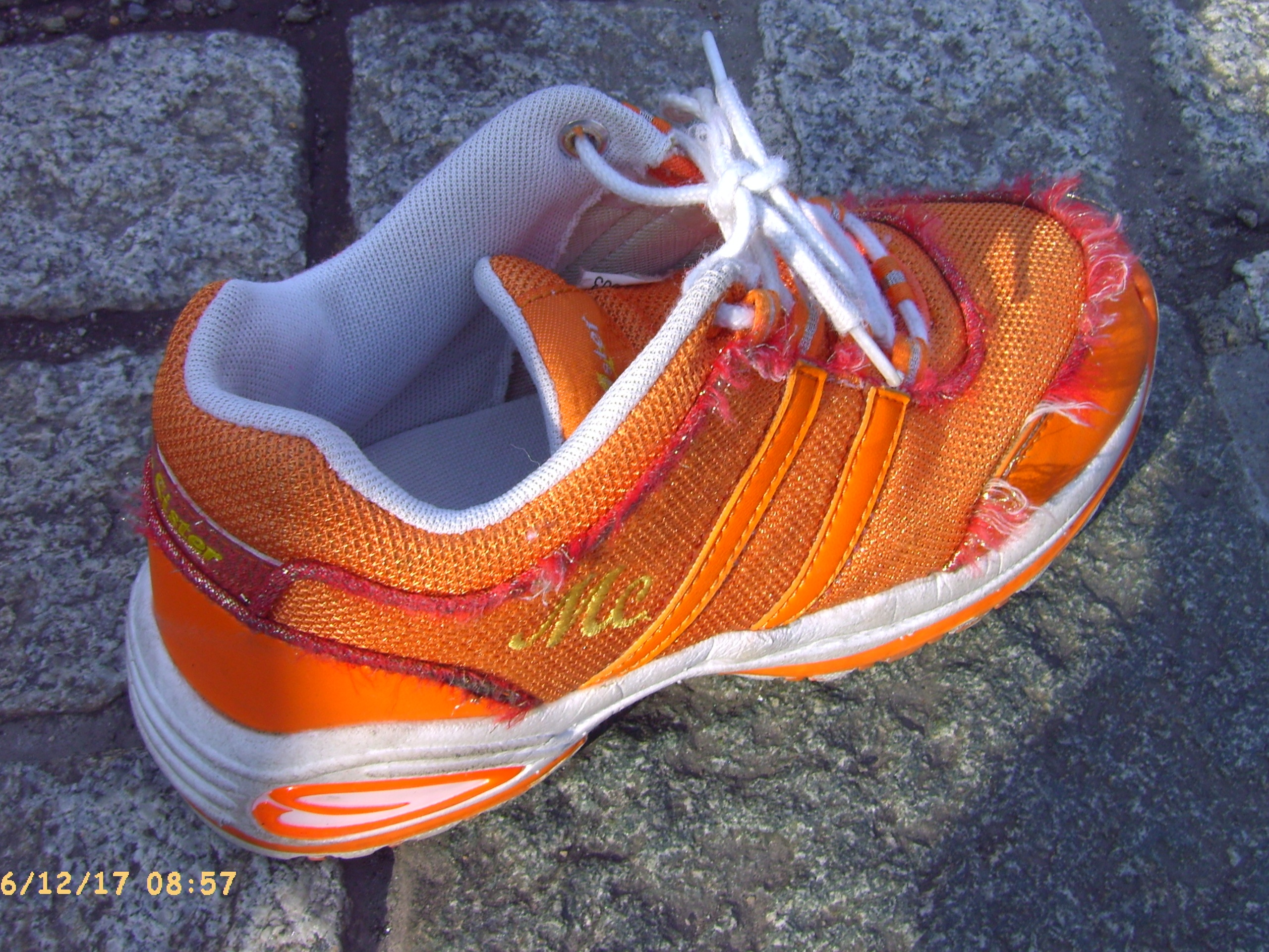 The one side of kid shoes is reconized as the evidence of the massive starting of kids group at 2006 ING The 10Th Taipei International Marathon.